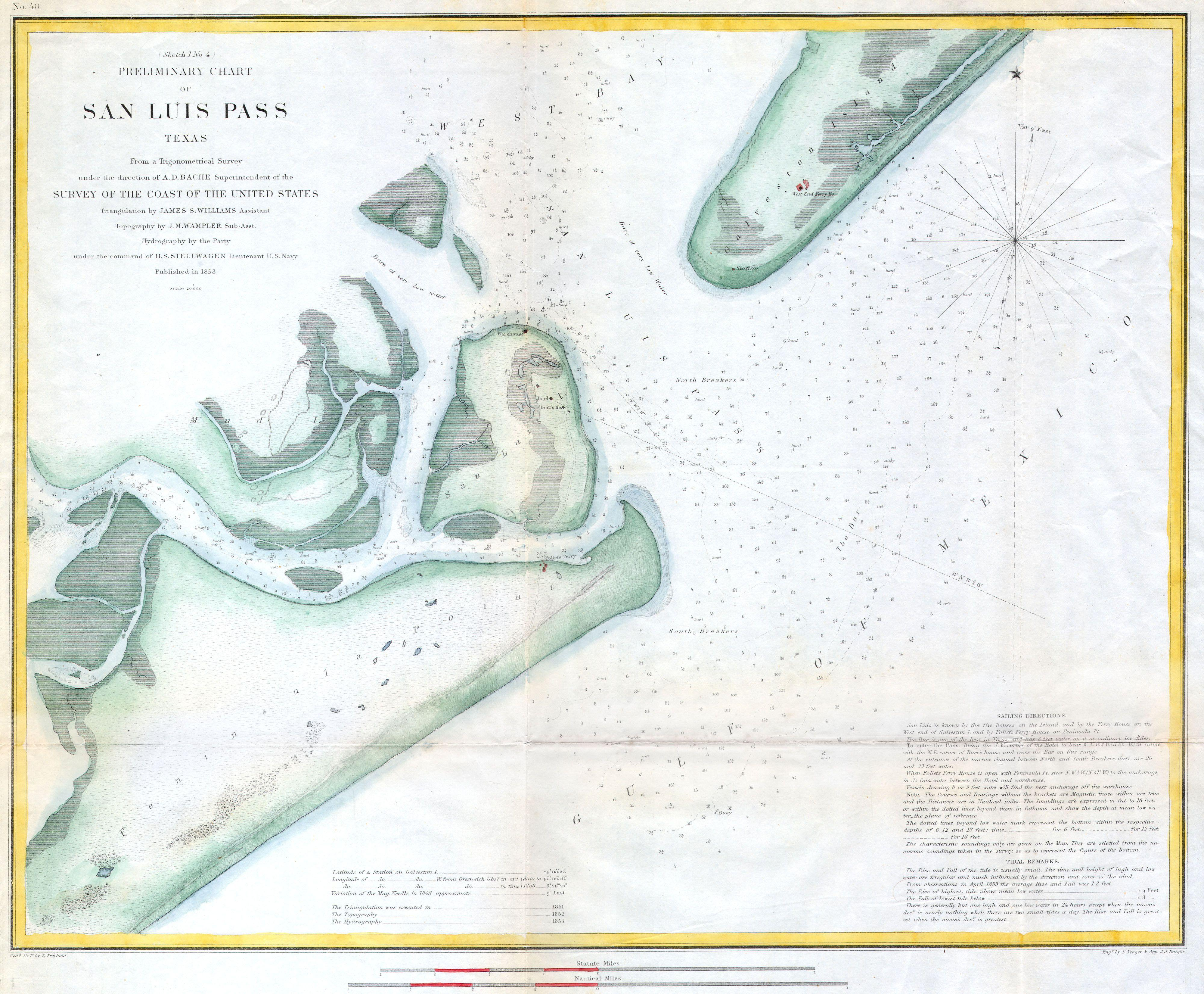 A rare hand colored 1853 costal chart of San Luis Pass or the entrance to Galveston harbor, Texas. Features Peninsula Point, Follet’s Ferry, San Luis Island, Mud Island and Galveston Island. There is a otel indicated on San Luis Island. Includes detailed sailing instructions, depth soundings, and impressive inland detail of the city of Galveston and vicinity. Triangulations were accomplished by J. M Wampler and J.S. Williams, under the direction of H.S. Stellwagen. Published under the supervision of A. D. Bache for the 1853 Report of the Superintendant of the U.S. Coast Survey.